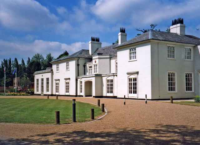 Gilwell Park, Chingford, Essex Gilwell Park is a conference centre owned by the Scout Association.